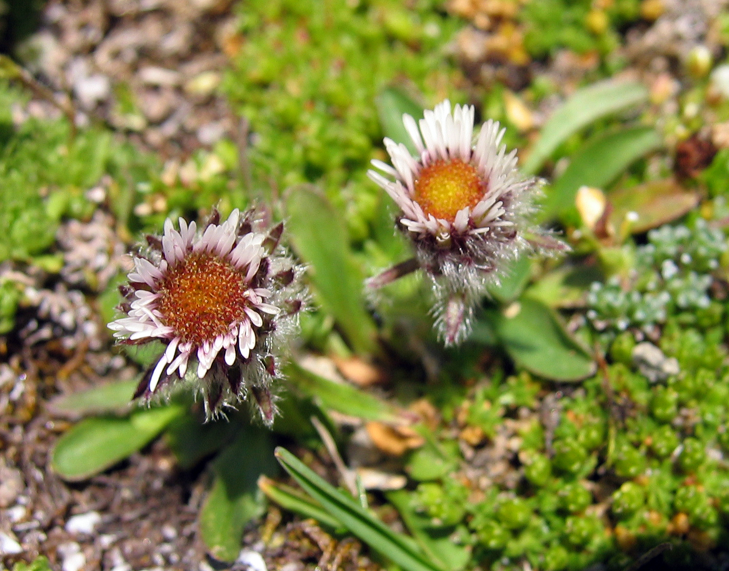 Erigeron uniflorus, Ridge near Kempsenkopf ~ 3100 m above sea level, Austria